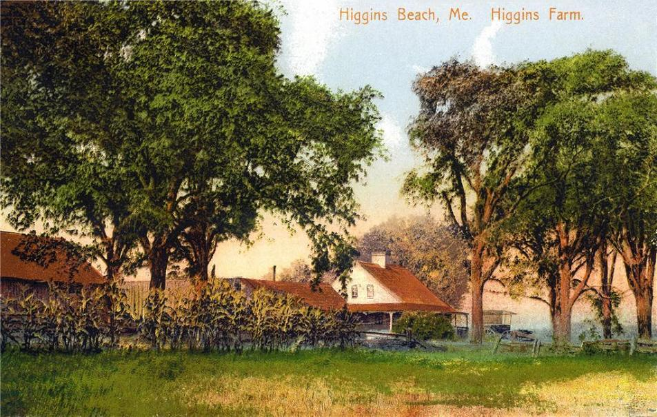 Higgins Farm, Higgins Beach (Scarborough), ME; from a 1910 postcard.